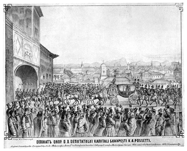 Alexandru Ioan Cuza at the Metropolitanate, 29 February 1860